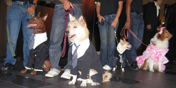 Animal actors from the film Ma-Mha on opening night of the 2007 Bangkok International Film Festival at SF World in CentralWorld, Bangkok.